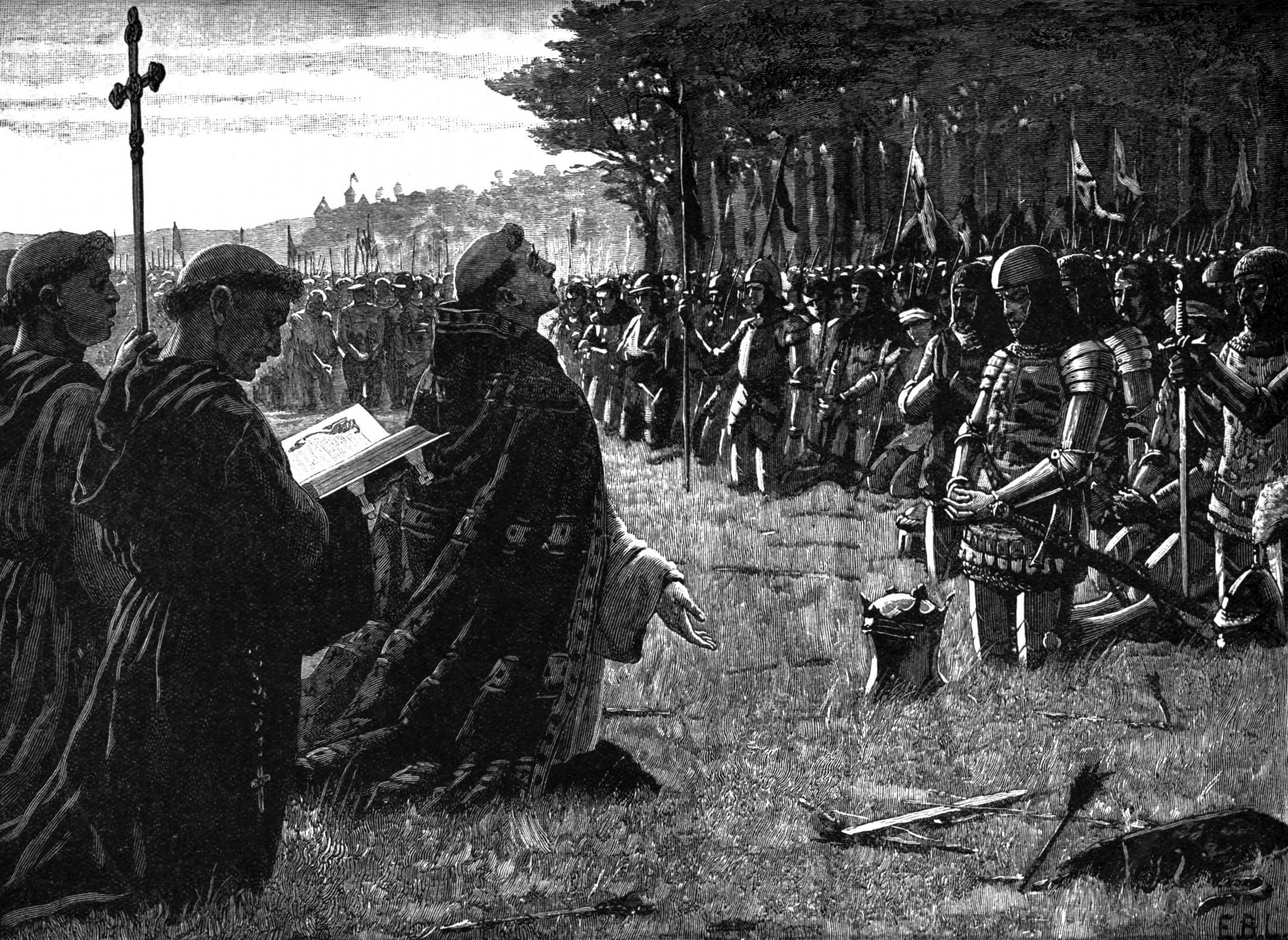 The Thanksgiving Service on the Field of Agincourt